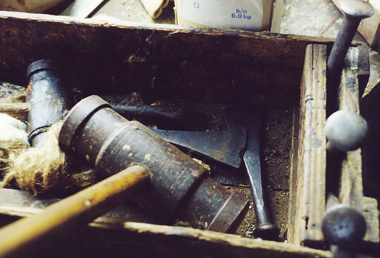 Caulking iron